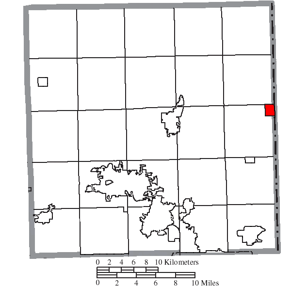 Map of the municipal and township boundaries of Trumbull County, Ohio, United States, as of the 2000 census, with the location of the village of Orangeville highlighted. Township borders are shown only in unincorporated areas in order to differentiate incorporated and unincorporated areas more clearly.